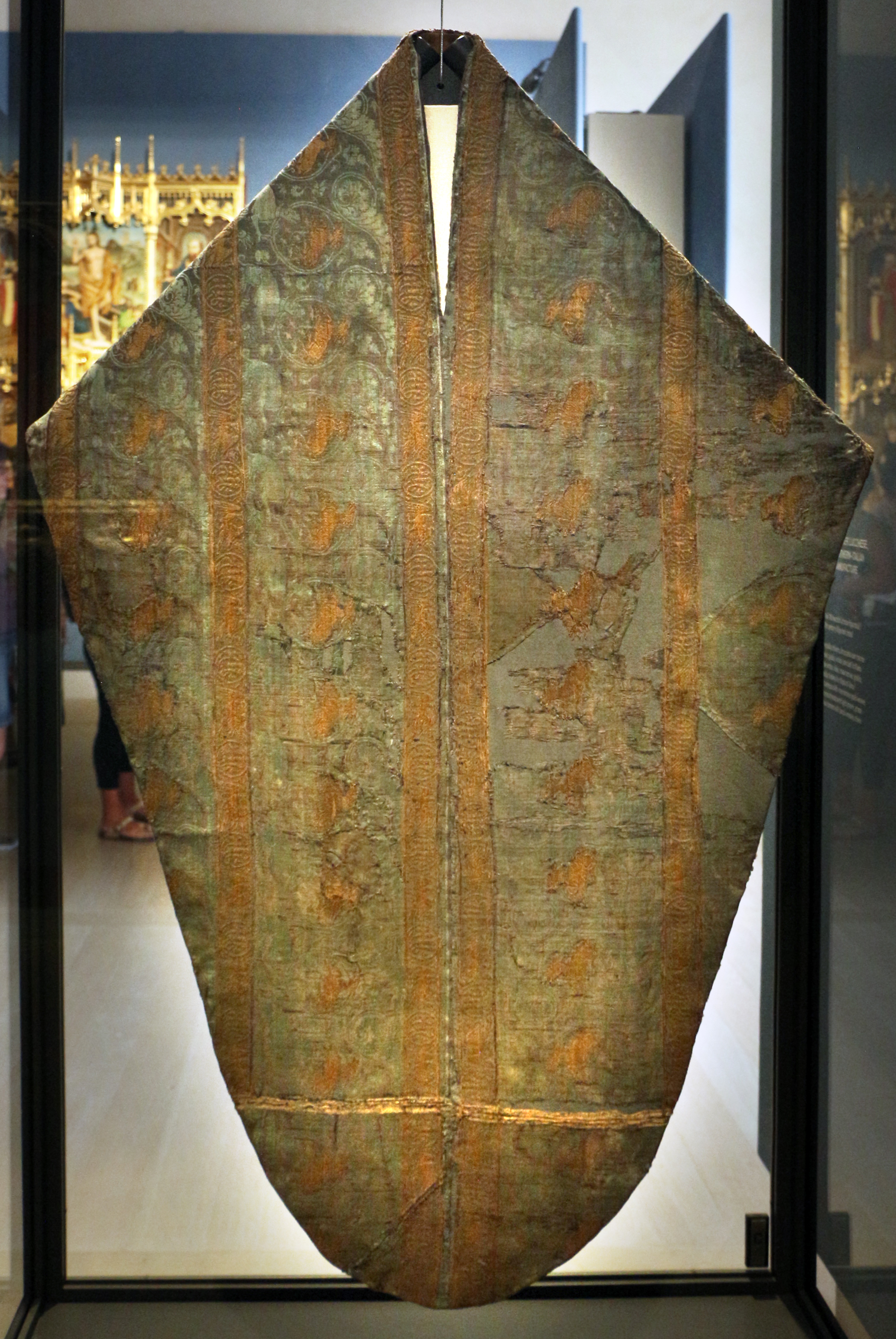 Restituzioni 2016